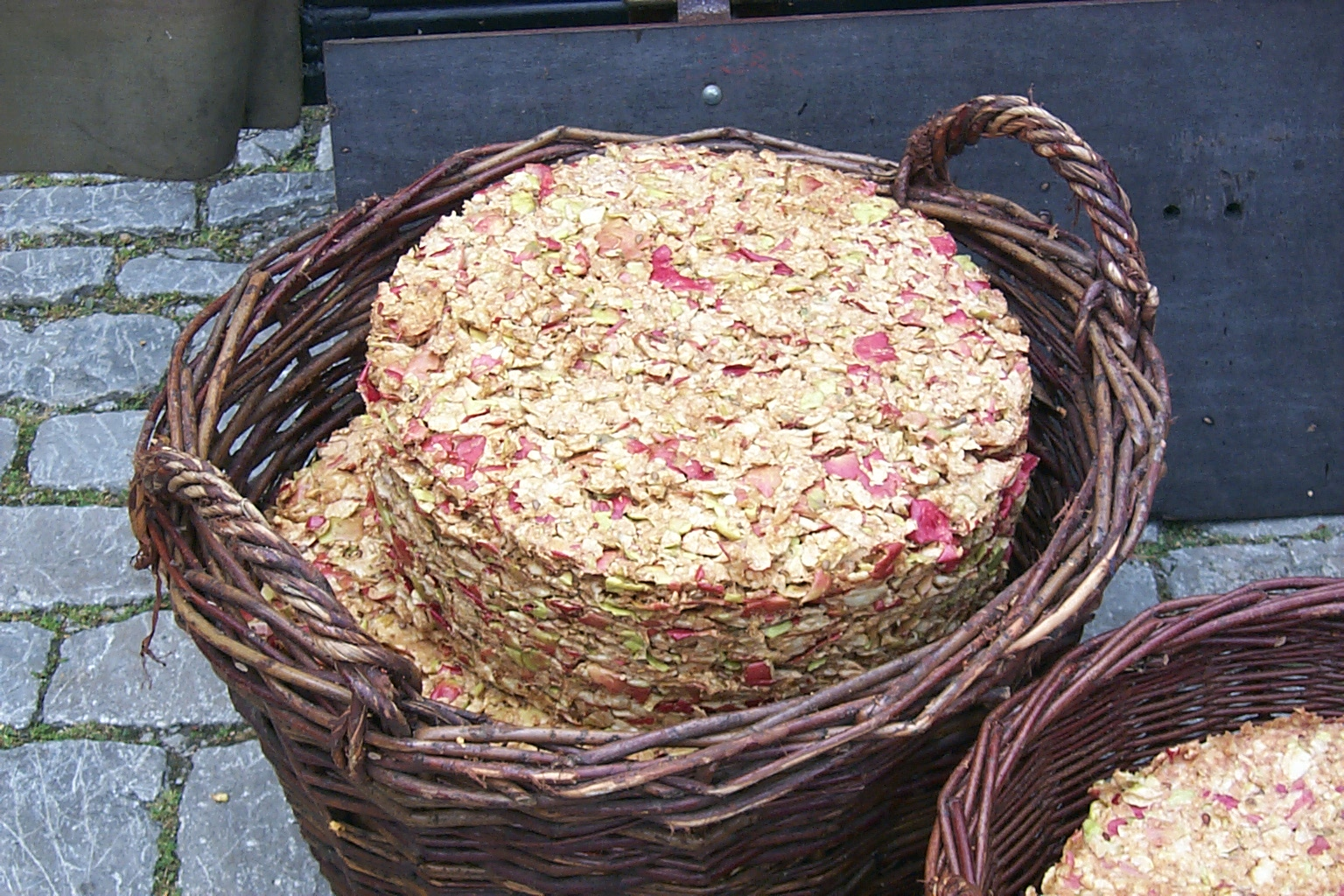 The remains of the cider press in Rothenburg, GermanyApple pressings